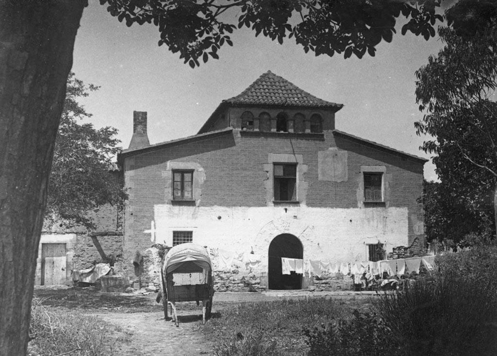 La Masia, Can Planes, in 1925